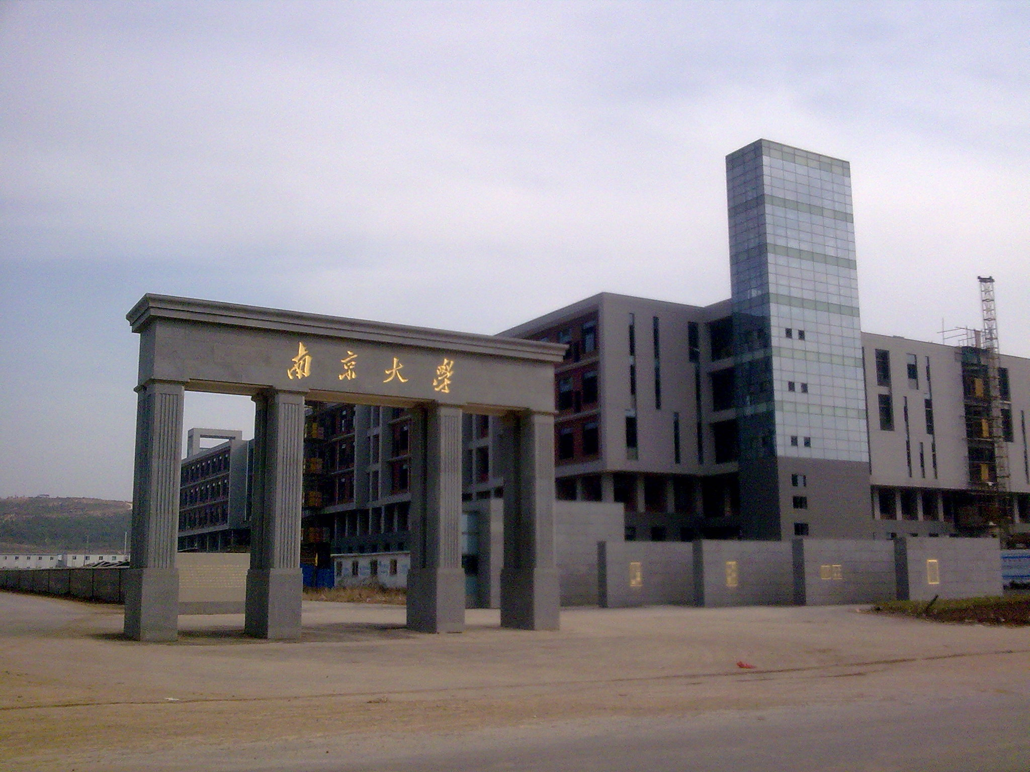 南京大学仙林校区西门。门楼正面刻“南京大学”，背面刻“中央大学”字样。 West Entrance of Nanjing University Xianlin Campus